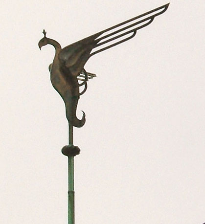 a phoenix weathervane on the roof of the Great hall of westminster school.